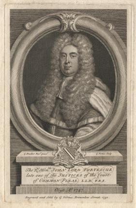 A line-engraved portrait of John Fortescue Aland, 1st Baron Fortescue of Credan (7 March 1670 – 19 December 1746), an English lawyer, judge, politician, and writer on English legal and constitutional history.